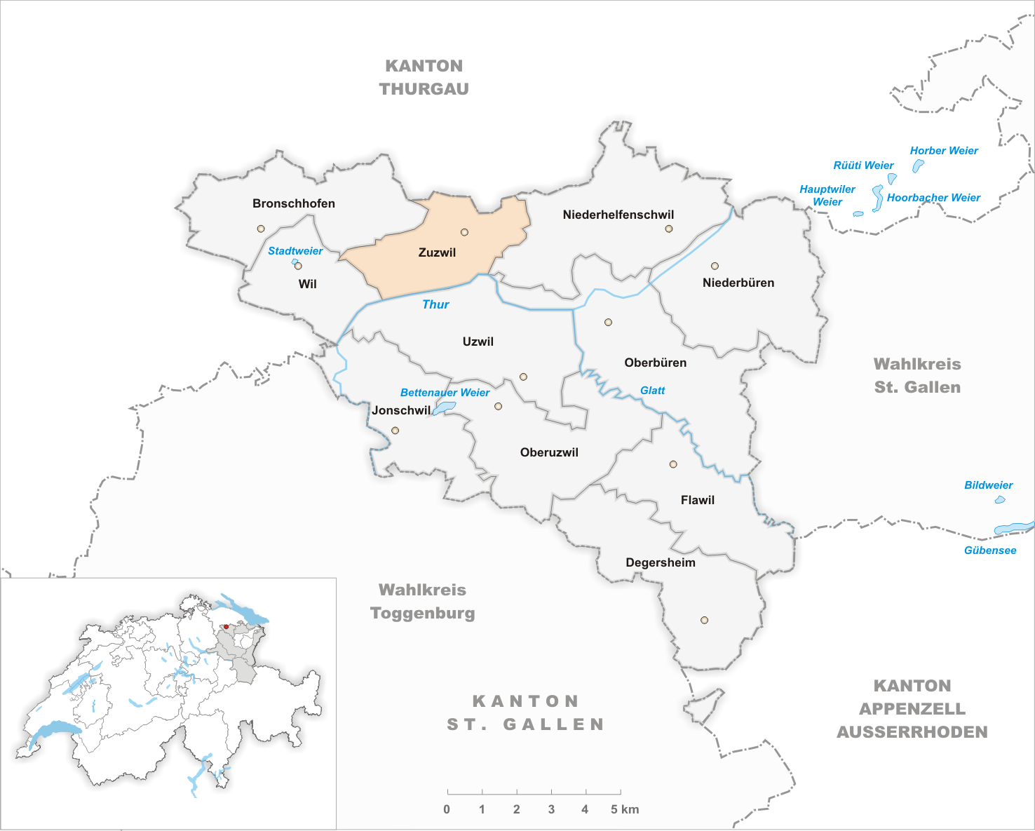 Municipality Zuzwil